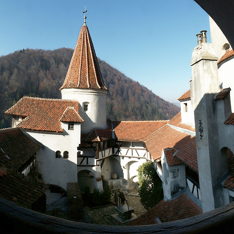 Bran castle, Romania.